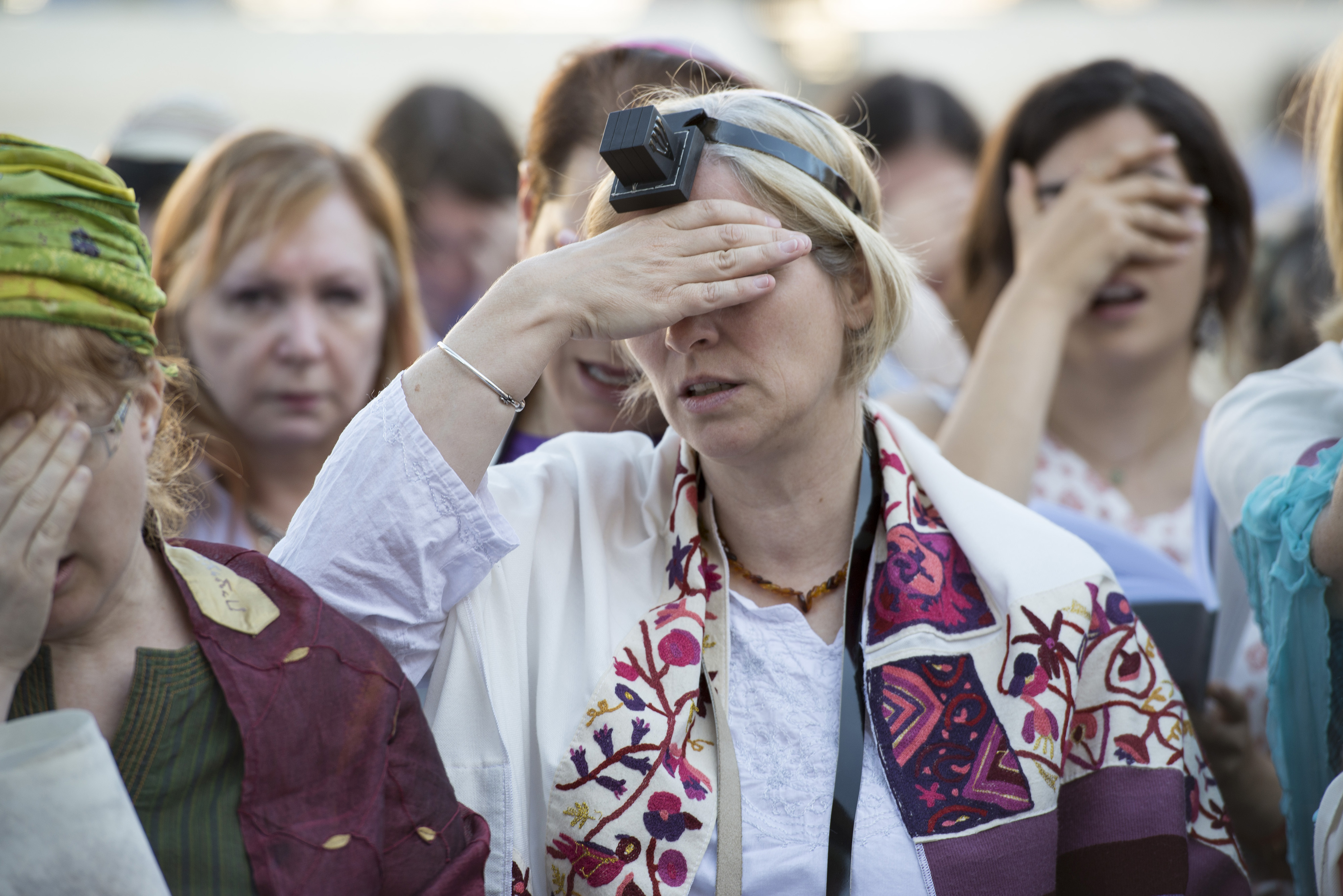 A women with Talllit and Tefillin reading the Shema Israel